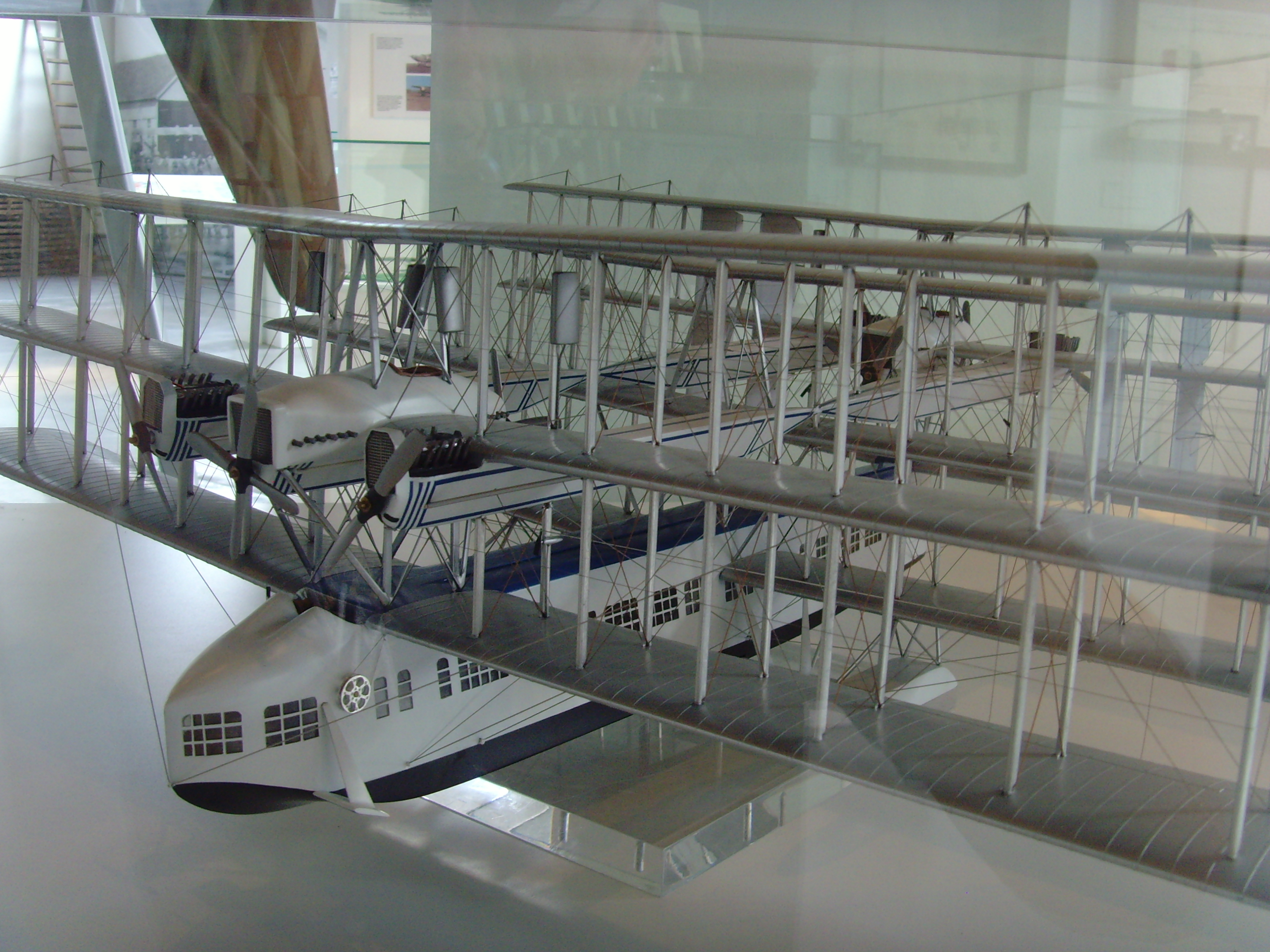 A model of Caproni Ca.60 "Transaereo" displayed in Volandia museum.